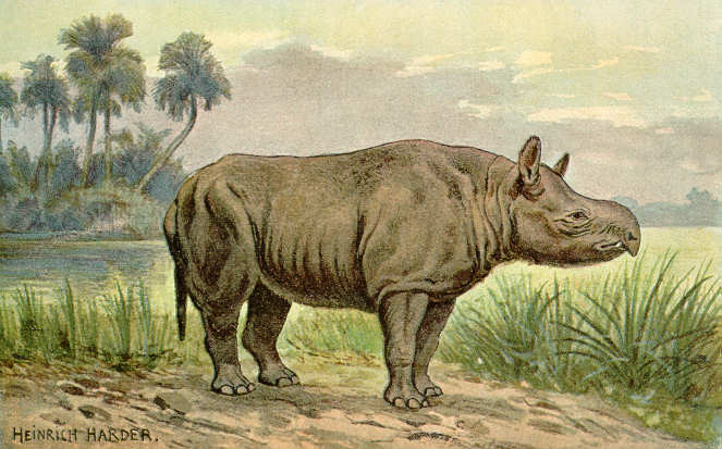 Aceratherium